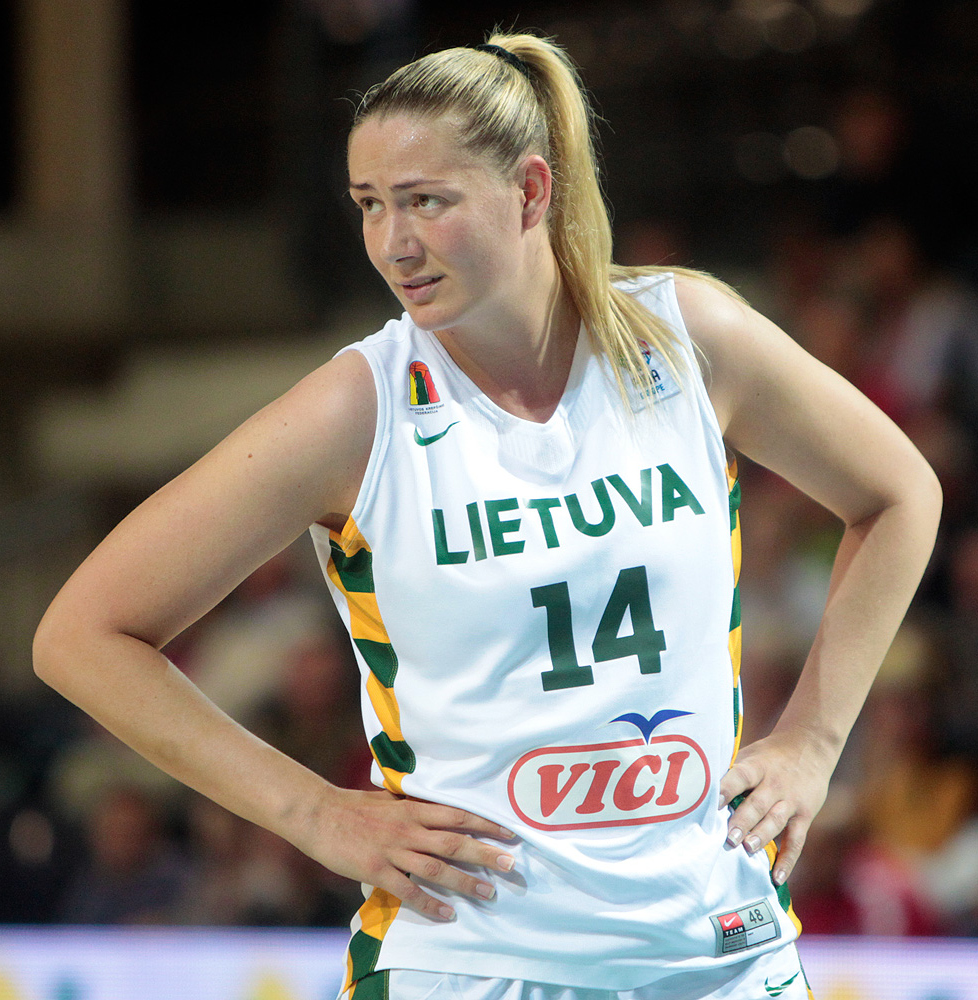 Basketball player Egle Sulciute-Geceviciene